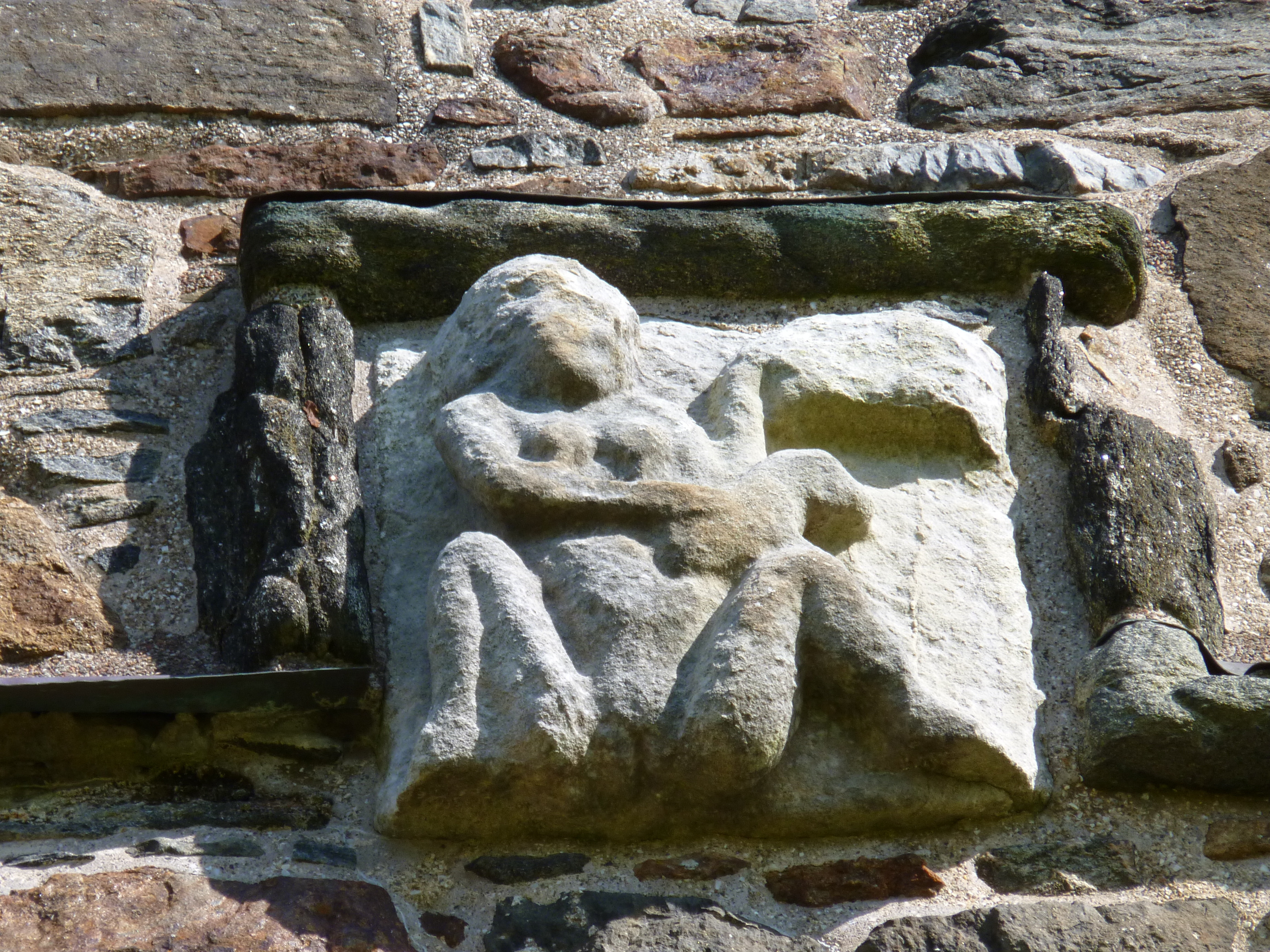 A Grotesque on the exterior of St Clements in the Hebrides, a Sheela na Gig